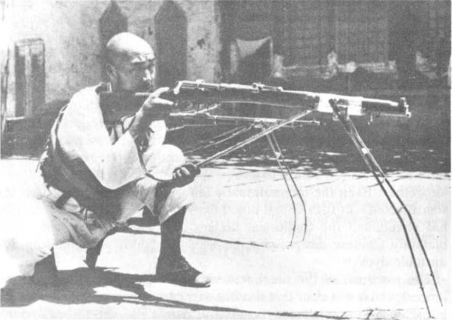 Chinese muslim rifleman of the 36th division under General Ma Hushan.